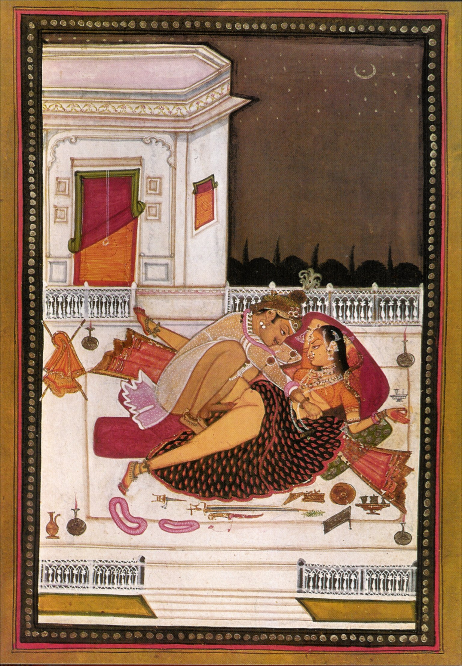 Prince and lady on terrace at night